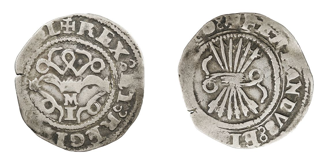 Half Spanish real, in silver, undated but later than the 1497 decree. Minted in Toledo.